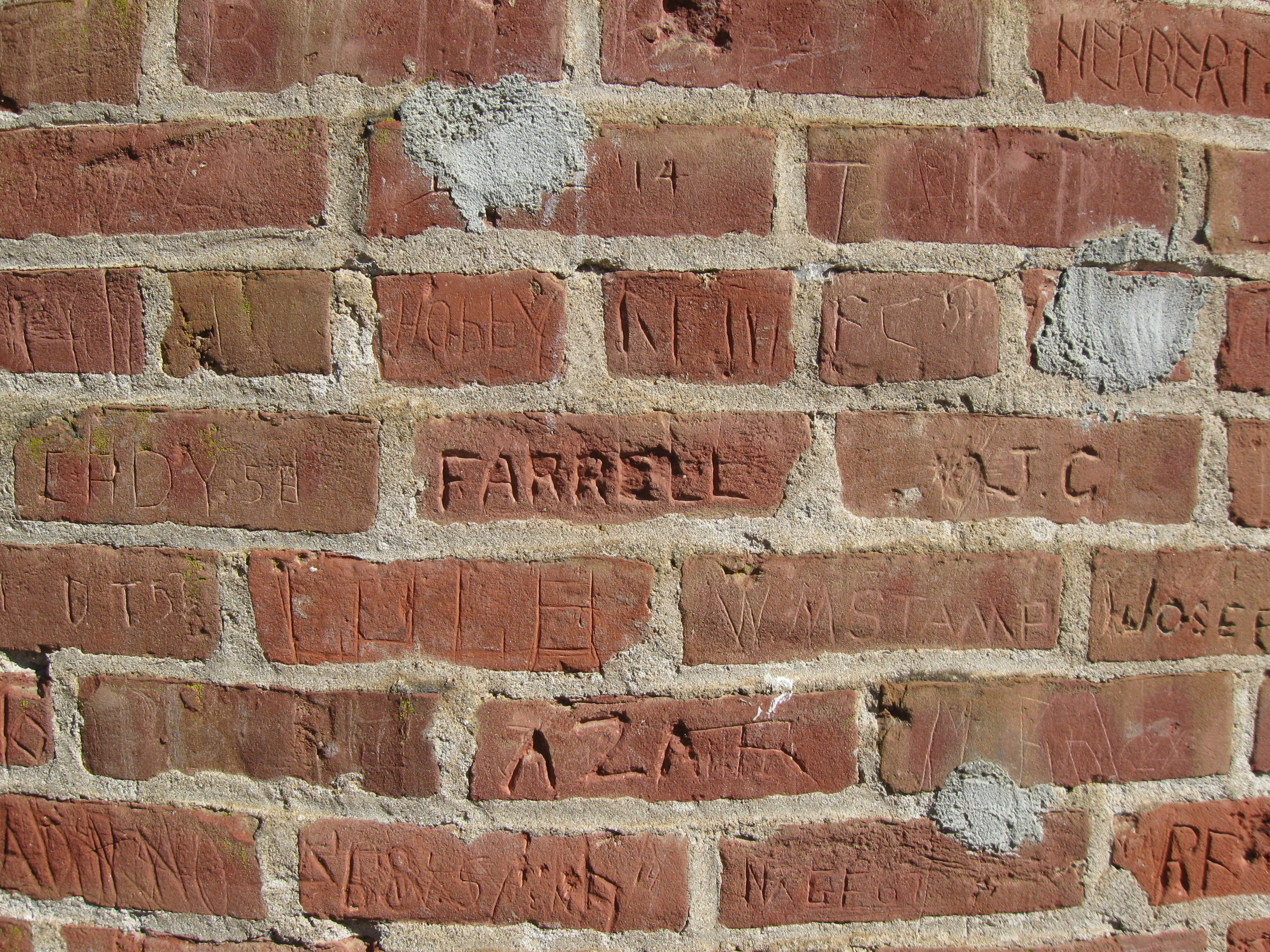 Carvings on the bricks of Frenchman's Tower